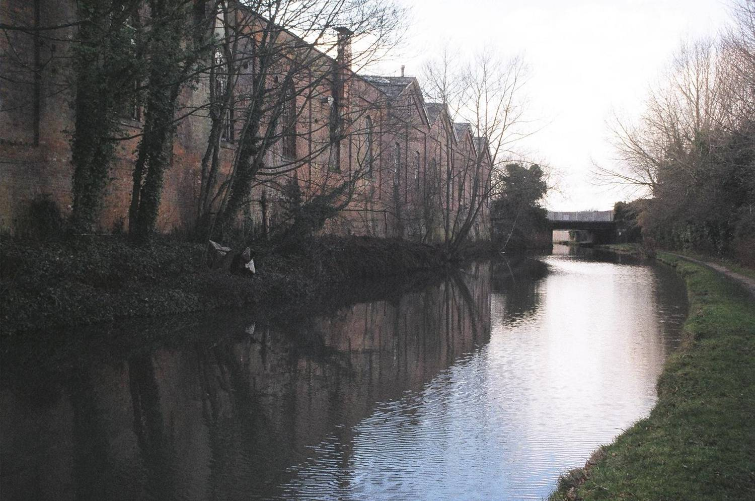 The Wolverton railway works pictured from the opposite side of the Grand Union Canal near the town’s railway station